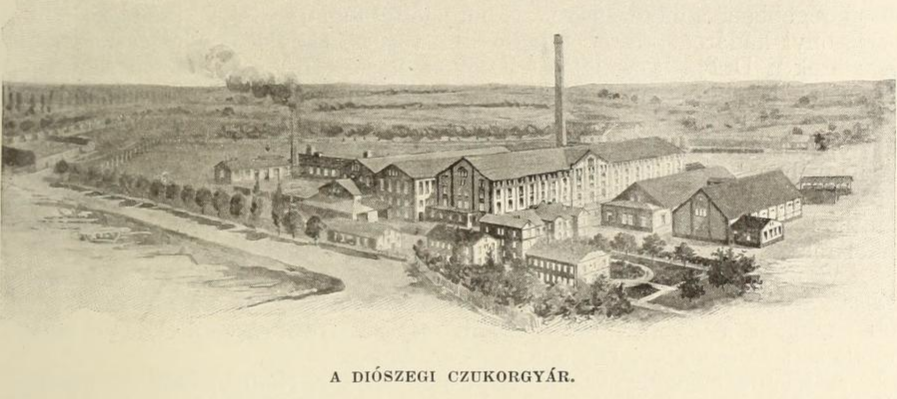 Sugar factory, Diószeg